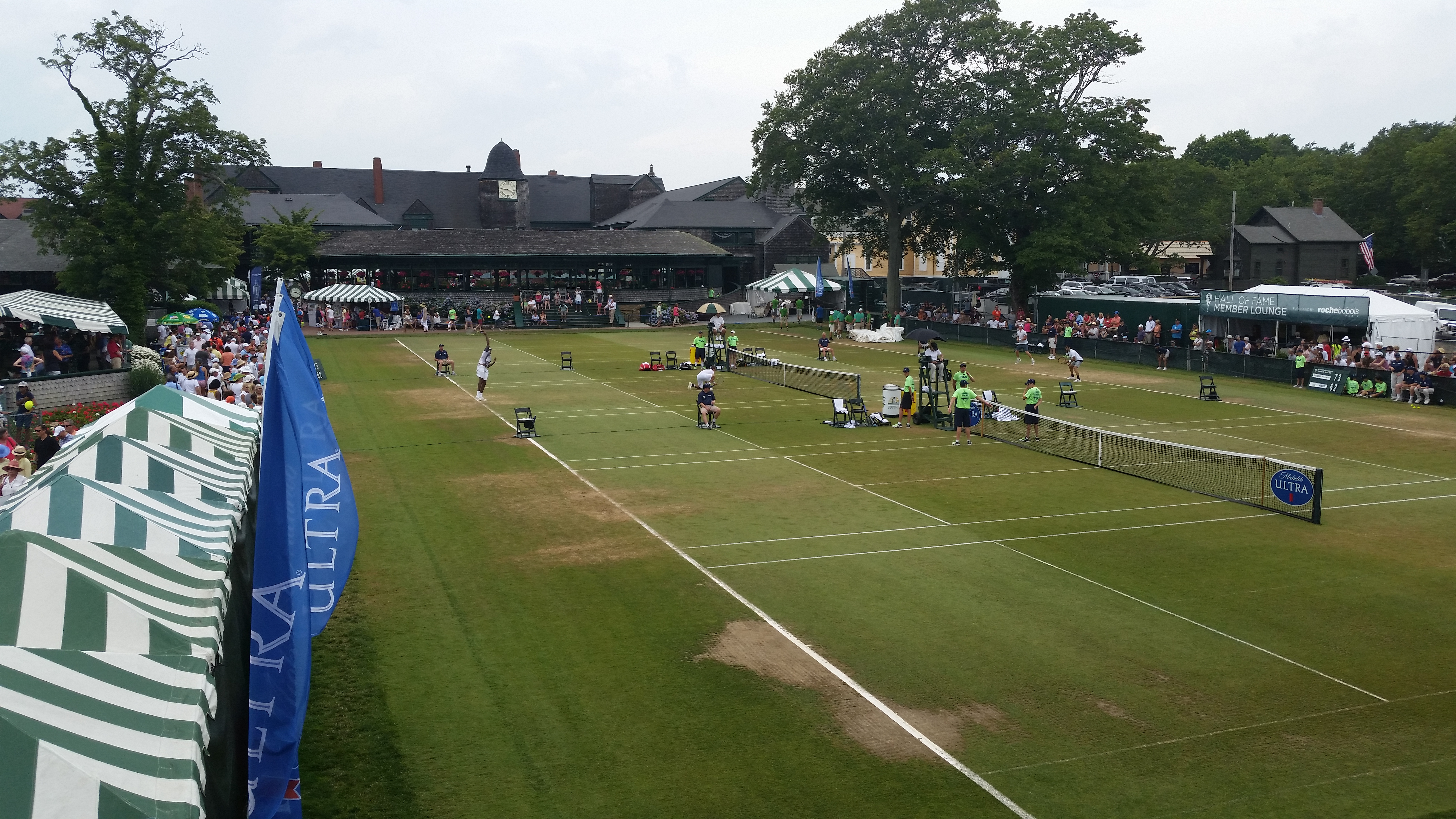 Hall of Fame Tennis Championships side courts